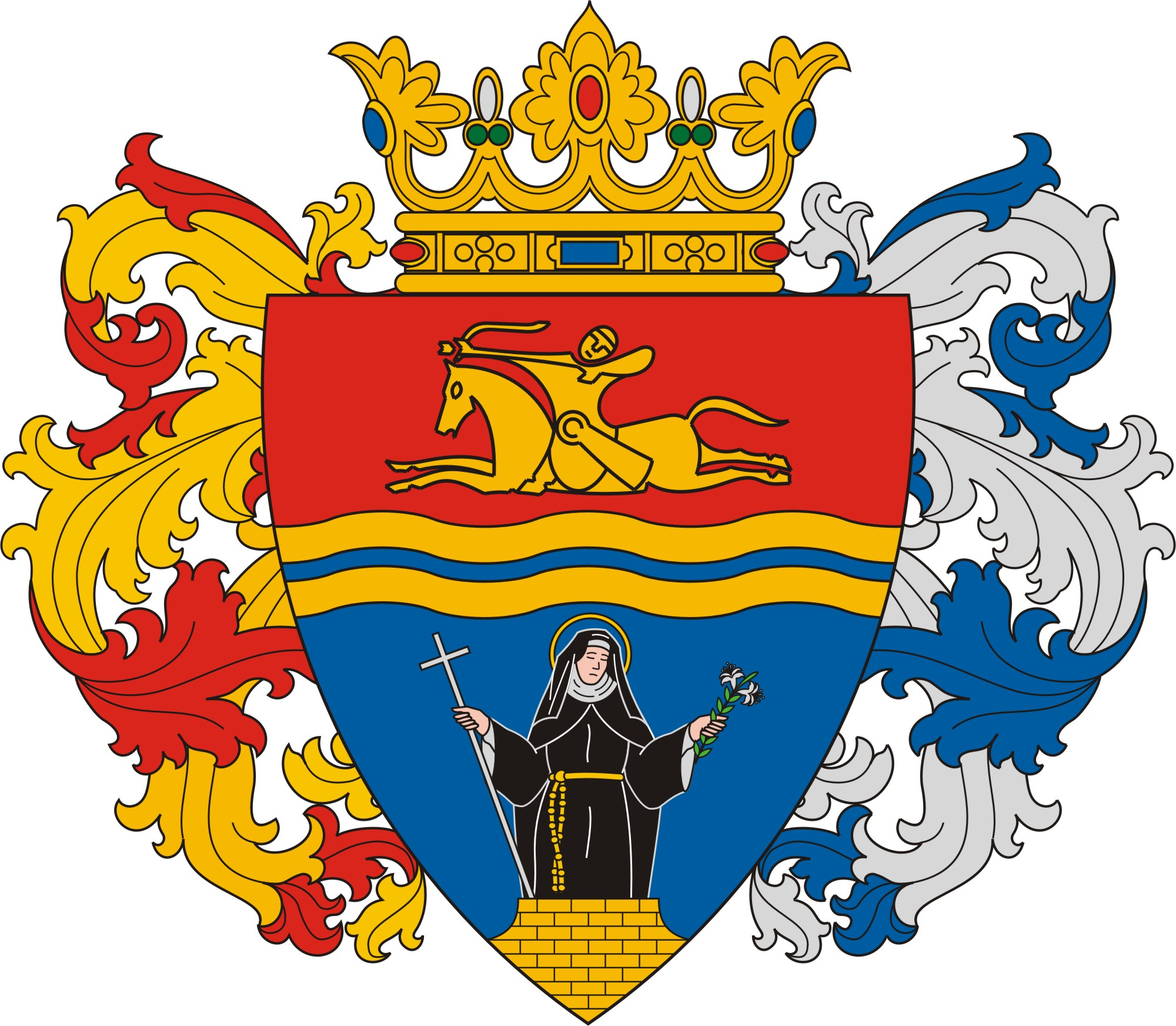 Coat of arms of Klárafalva, Hungary